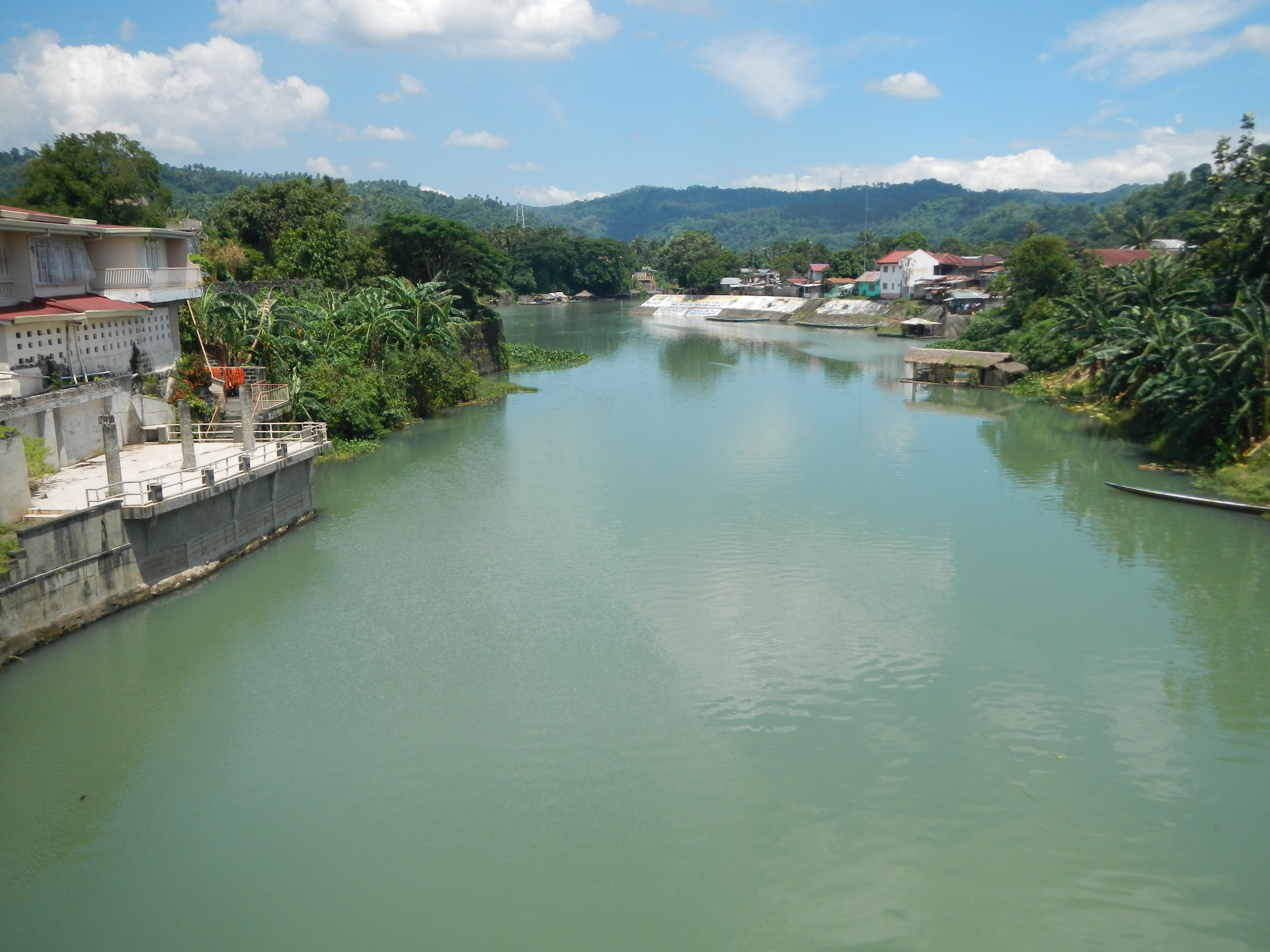 Balanac River under this Balanac Bridge beside the Municipal Government or Town hall building of Pagsanjan: Bumbungan River [1] is a river in Laguna [2] in the Philippines, commonly referred to as the Pagsanjan River in Pagsanjan, Laguna[3], where the Balanac River, originating from Mount Banahaw,[4] joins the Bumbungan. Bumbungan River originates from the Sierra Madre Mountains, in the highlands of Cavinti town, flowing through Pagsanjan and ending in Lumban[5] where it drains to Laguna de Bay, [6].